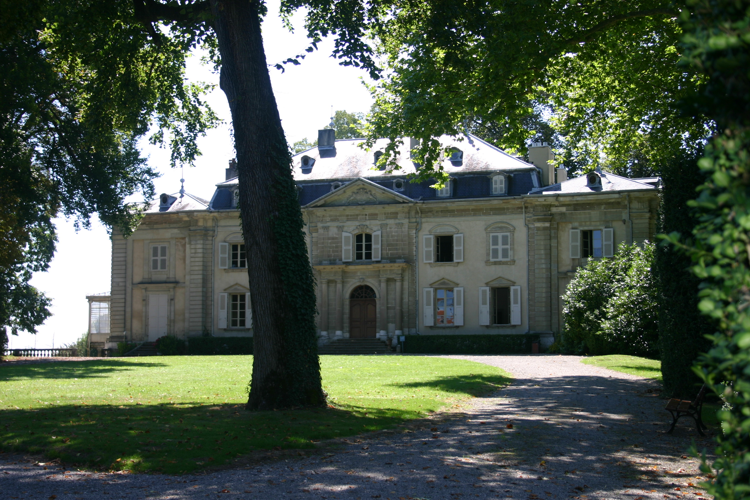 Voltaire's castle in Ferney-Voltaire (Ain - France)